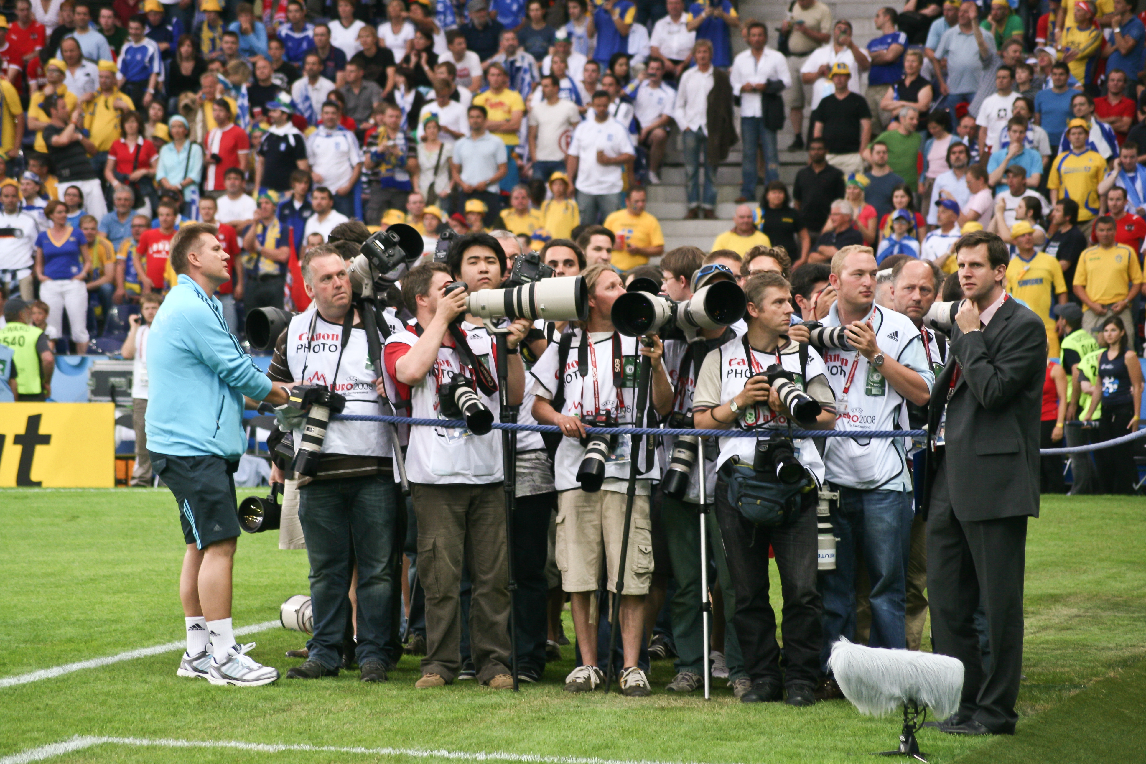 Greece vs Sweden in Salzburg during UEFA Euro 2008